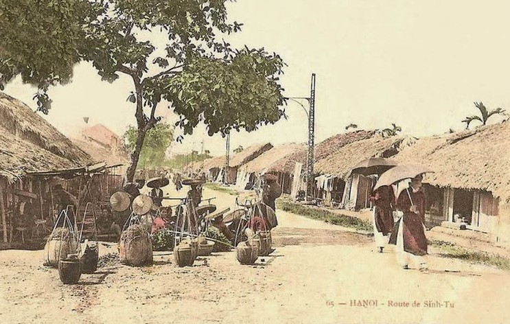 âcds